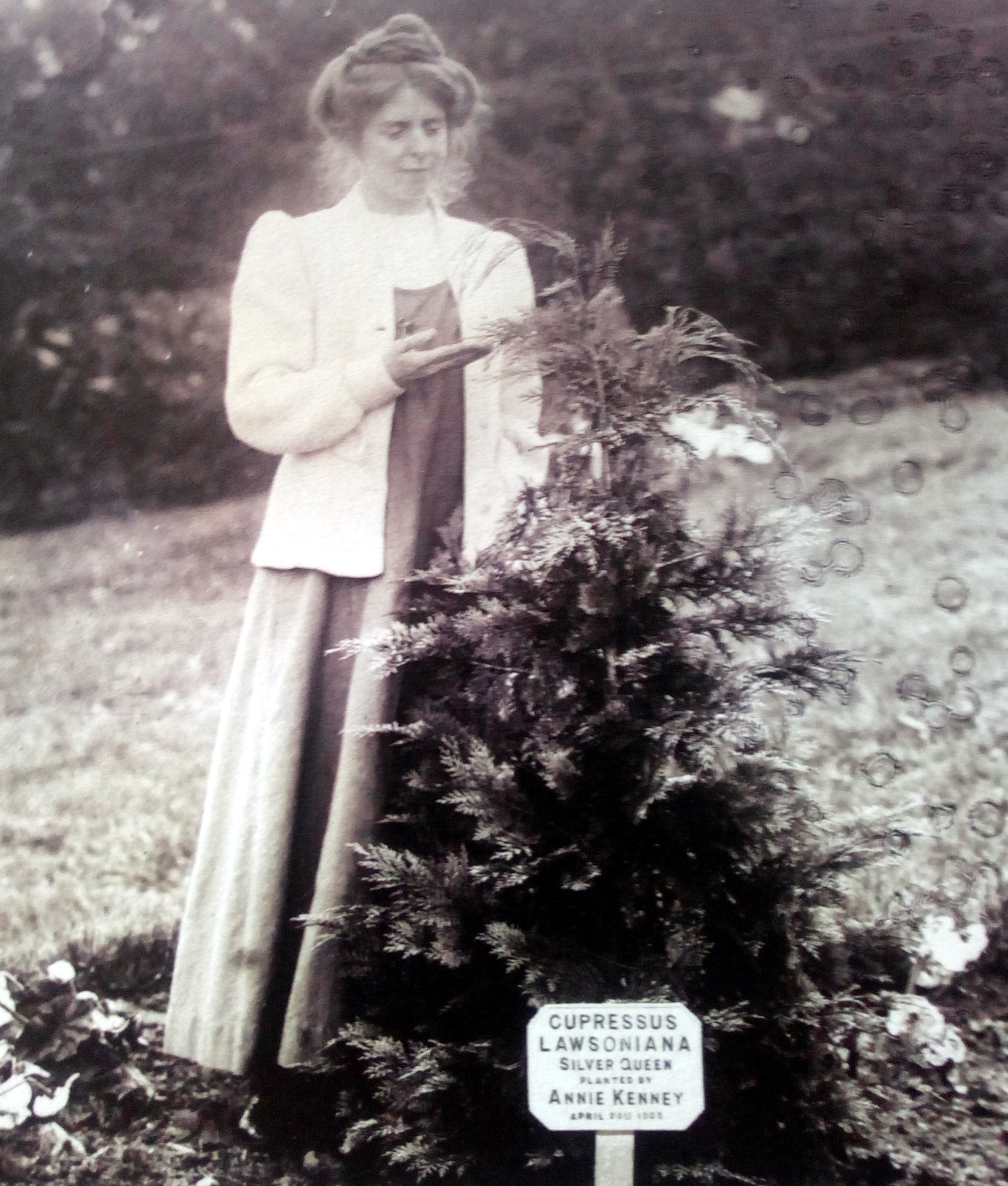 Annie Kenney planting her own tree in Annie's Arboretum at Eagle House in Batheaton in about 1908